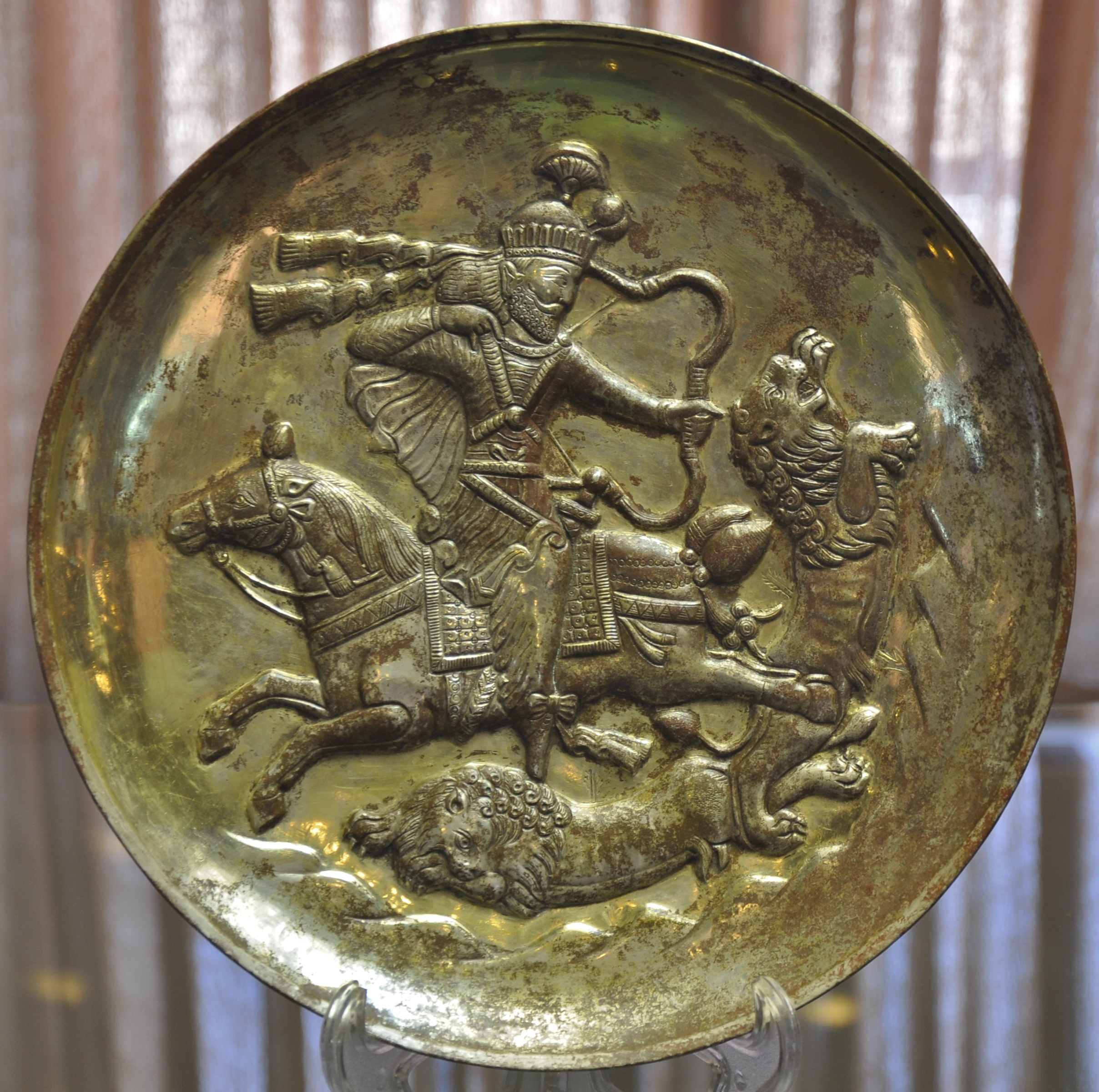 Museum of Tabriz